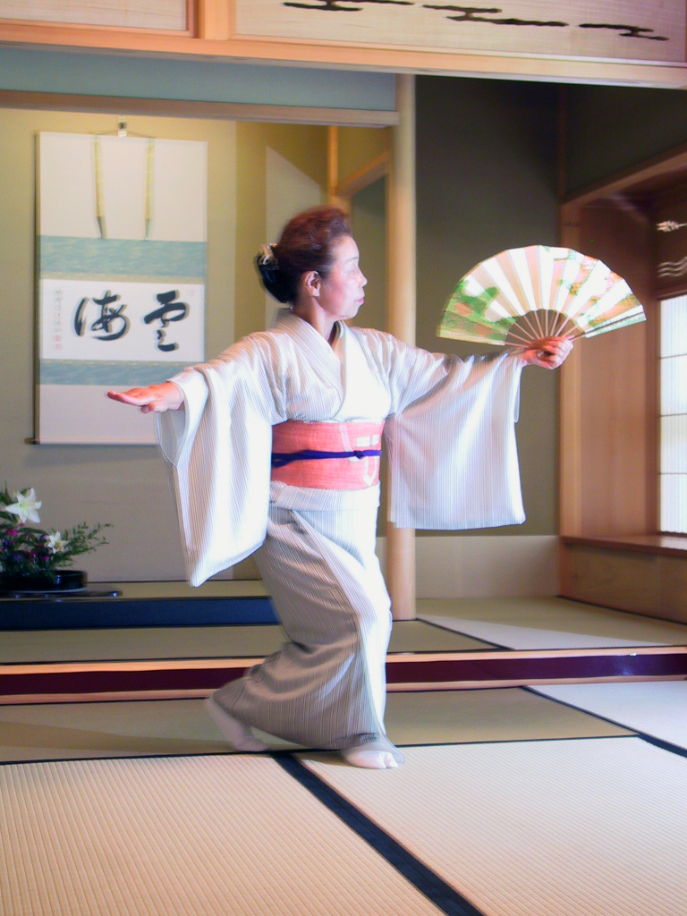 A Japanese traditional dancer (see also a cropped version)